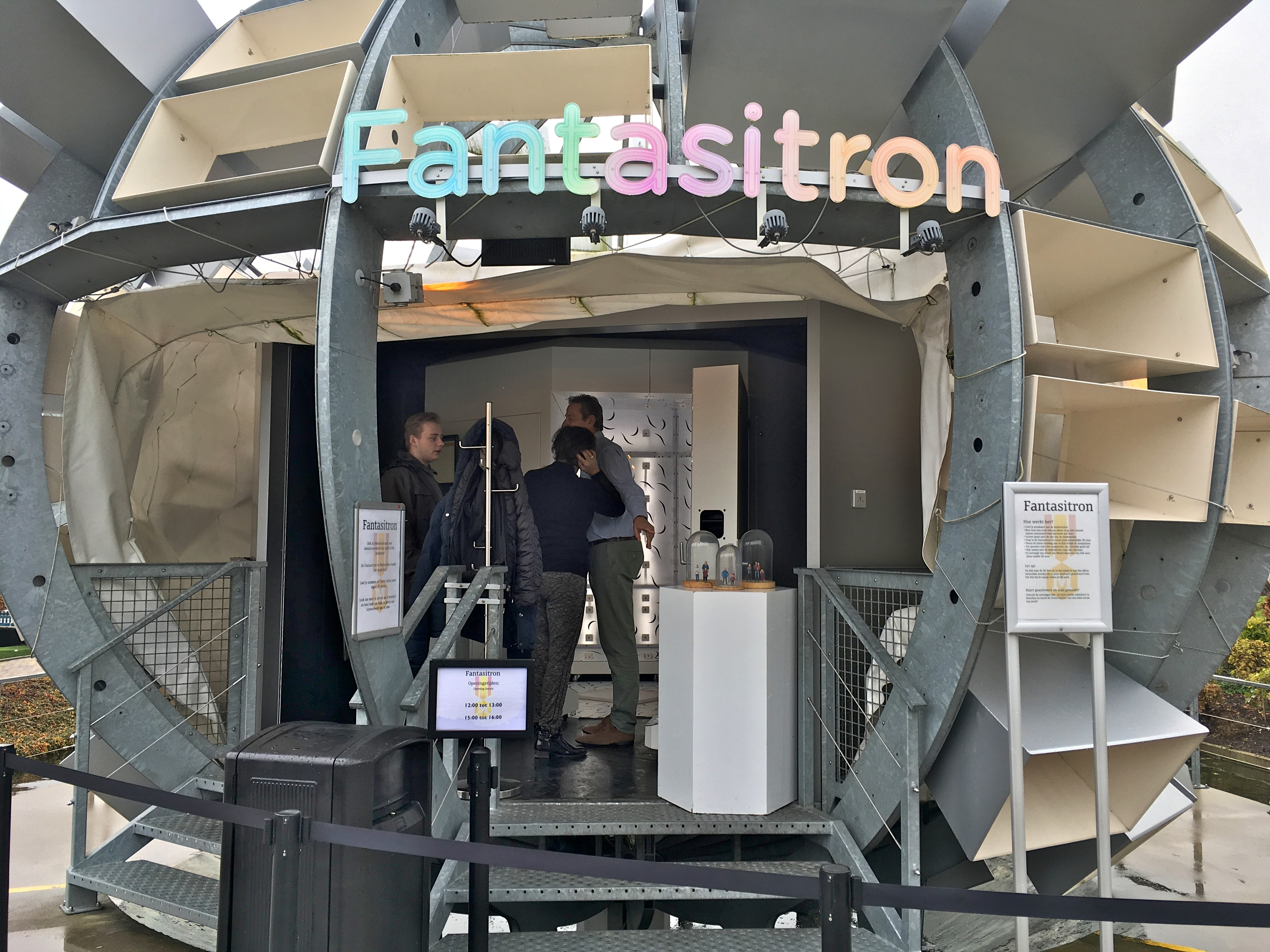 The Fantasitron photo booth for 3D selfies at the Madurodam miniature park. The 3D selfie are then fabricated using powder bed and inkjet head 3D printing.